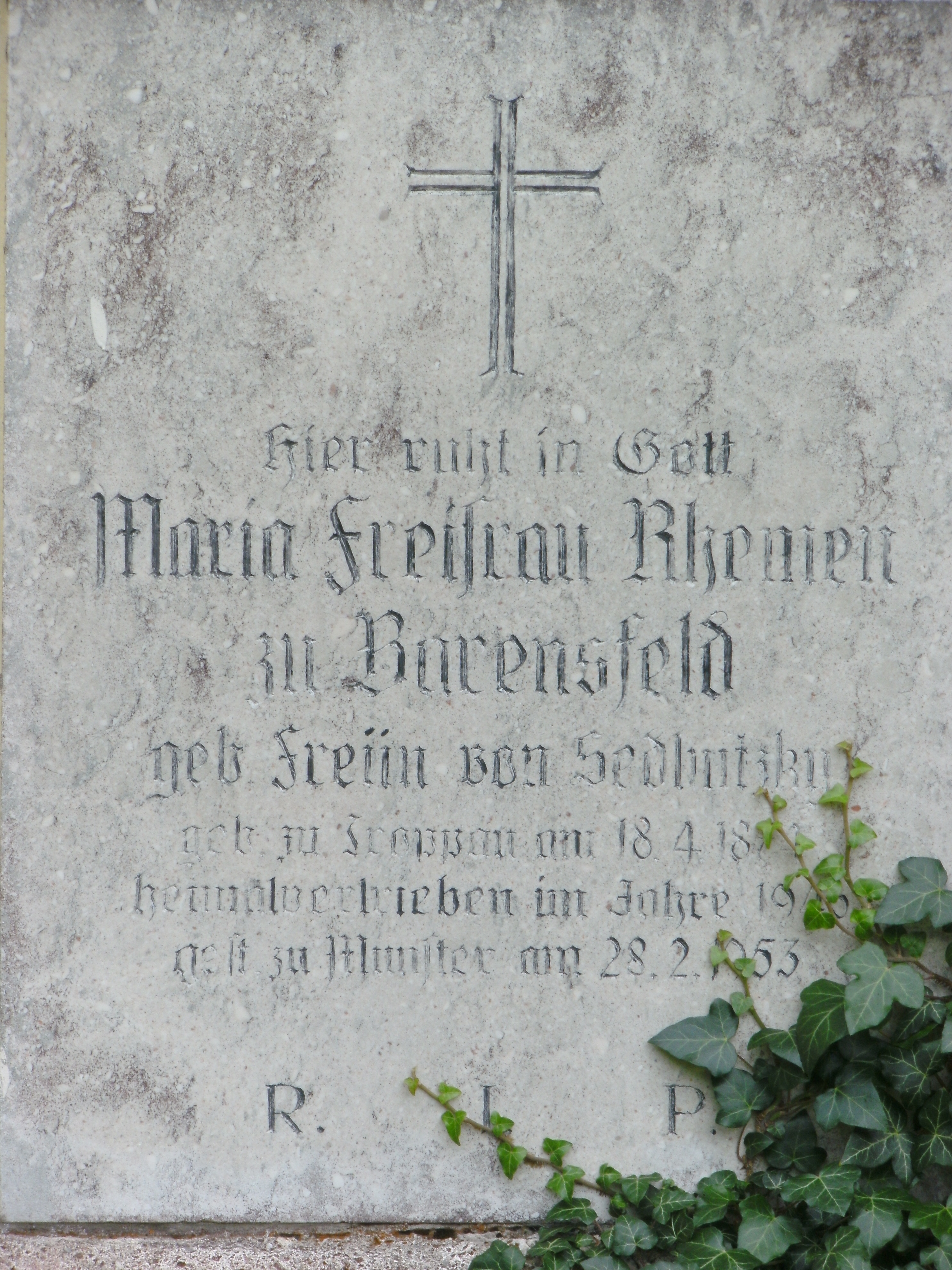 Funerary monument of former owners of Ering palace at the church of St Anna near Ering, Bavaria